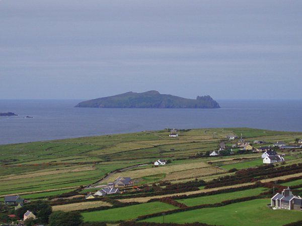 Inis Tuaisceart (Inishtooskert) A view across the fields and scattered dwellings in the Dun Chaoin area towards the island commonly known as 'the sleeping giant'.